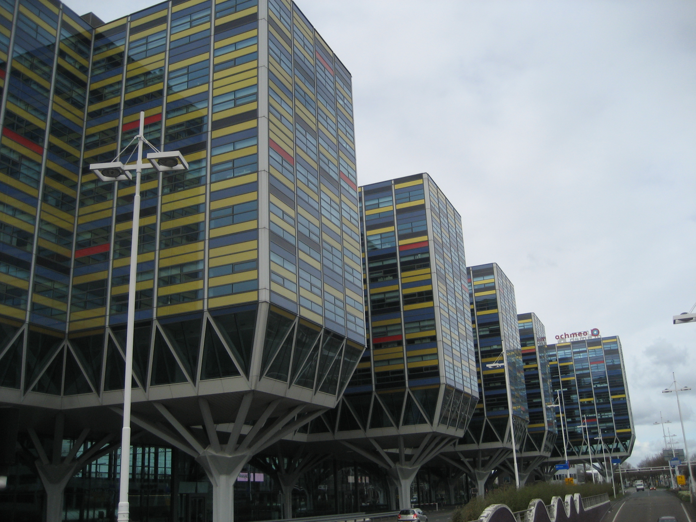 Achmea buildings, Schipholweg, Leiden (The Netherlands)